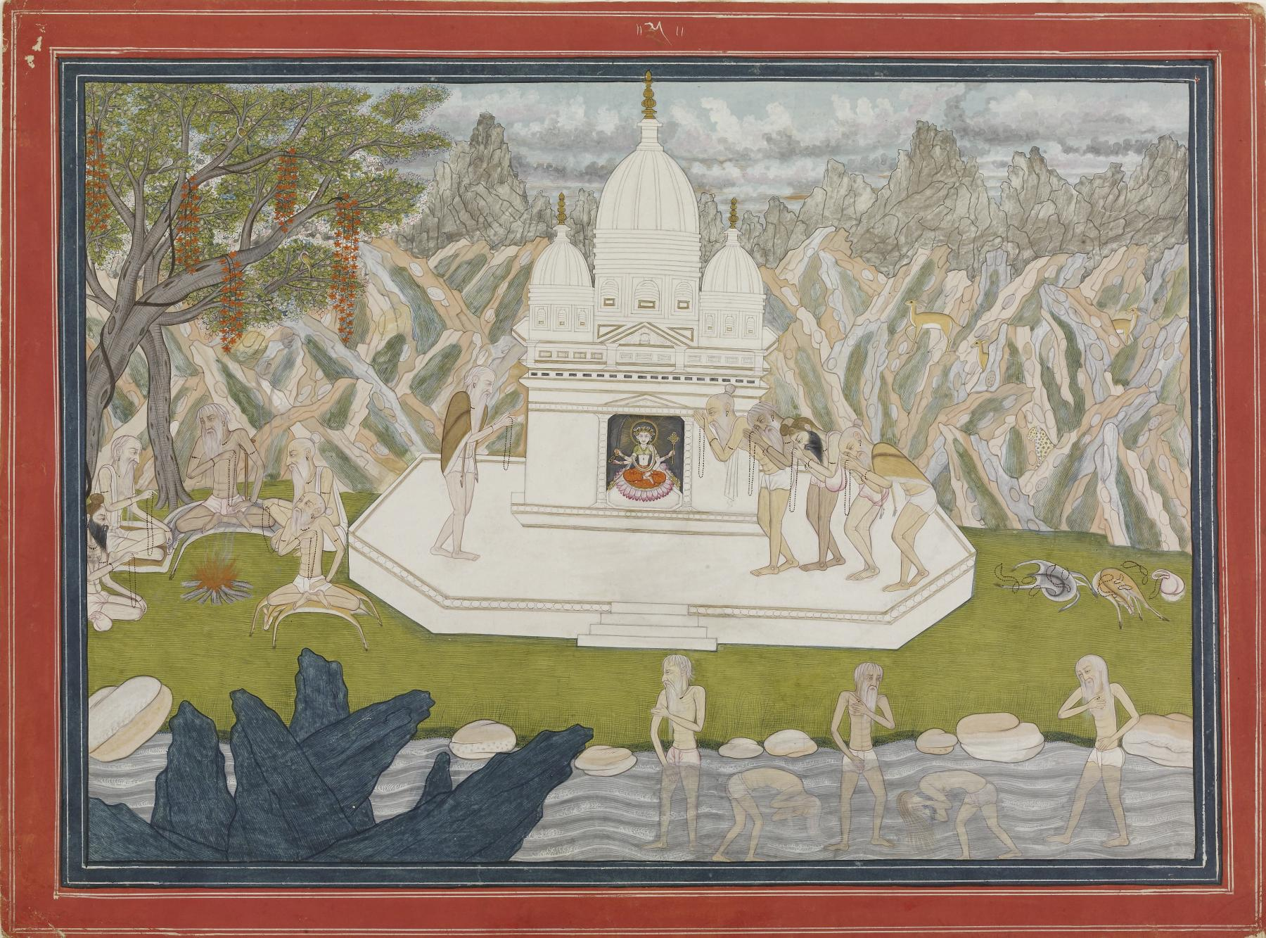 The five pilgrims are shown engaged in three different activities, following the continuous mode of visual narration that has remained a favorite of Indian artists for over two millennia. In the foreground, they bathe in a river; having cleansed their bodies, they pay obeisance to the goddess in the temple; finally, they sit in a group below a flowering tree, and in the warmth of an improvised fire, they say their prayers. Each ascetic, called "sadhaka" (devotee) or "siddha" (empowered) in the text has a distinctive physiognomy, rendered with convincing naturalism. Realistic touches are also evident in the manner in which the garments and rosaries are strewn on the ground and in the depiction of the fire, indicative of intense cold at the isolated shrine high in the mountains. Indeed, the iciness of the atmosphere is further conveyed by the prominent use of cold, pastel tones and stark white, which gain in intensity from the jutting charcoal gray rocks in the water, the patch of green, and the orange flowering vines dangling from the tree.